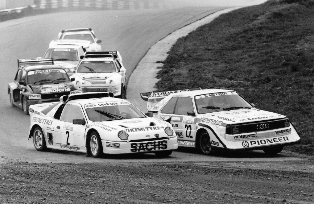 Eventuall winner Martin Schanche from Norway (left; Ford RS200 E2) and his runner-up Herbert Breiteneder from Austria (right; Audi Sport quattro S1) pictured while leading the A final field into the first corner of the Austrian round of the 1989 FIA European Rallycross Championship at Melk. Picture taken by myself.